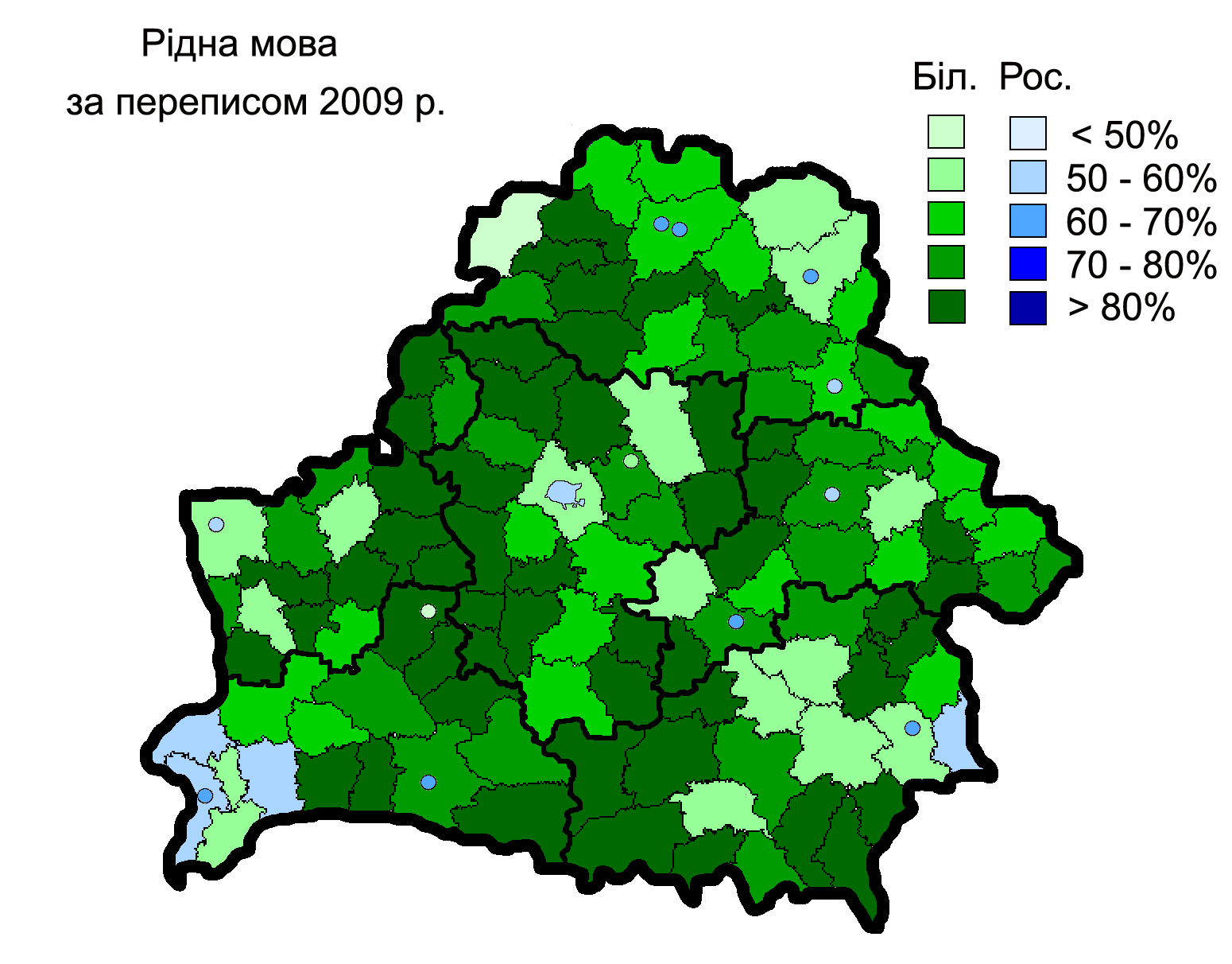 Native languages in Belarus according to the 2009 census